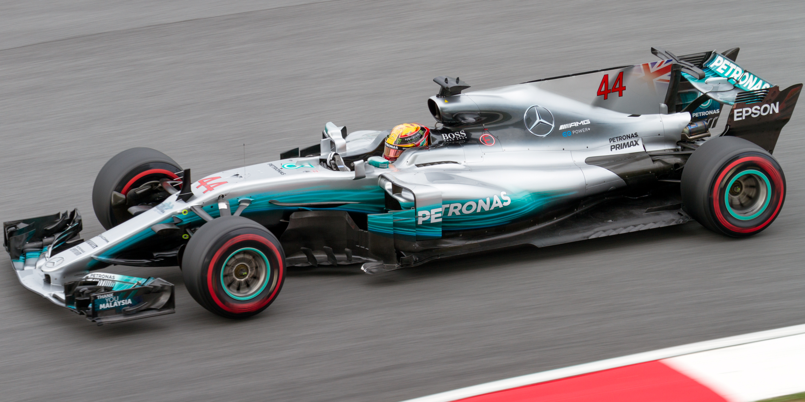 Formula One 2017 Rd.15 Malaysian GP: Lewis Hamilton (Mercedes)